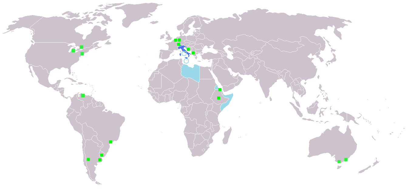 The Italophone World Blue: Native language Ligth blue: Secondary or common language Green squares: Italian speaking minorities